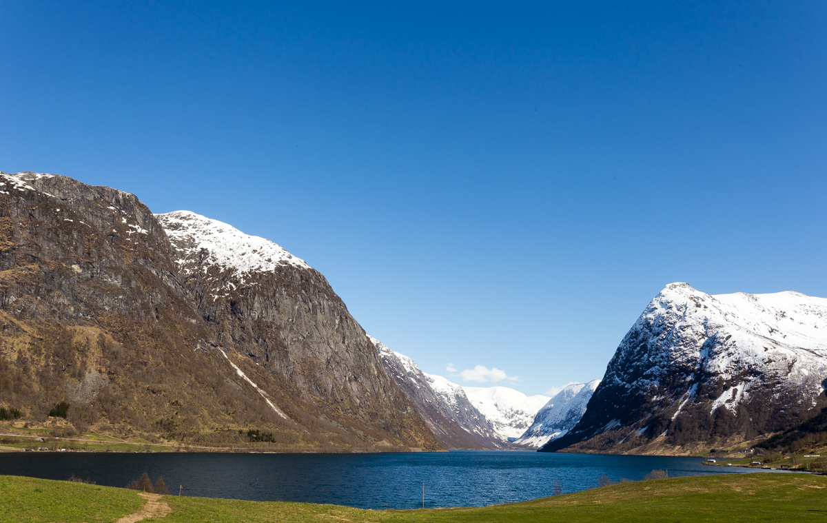 Lake "Kjøsnesfjorden" in Jølster, Sogn og Fjordane.